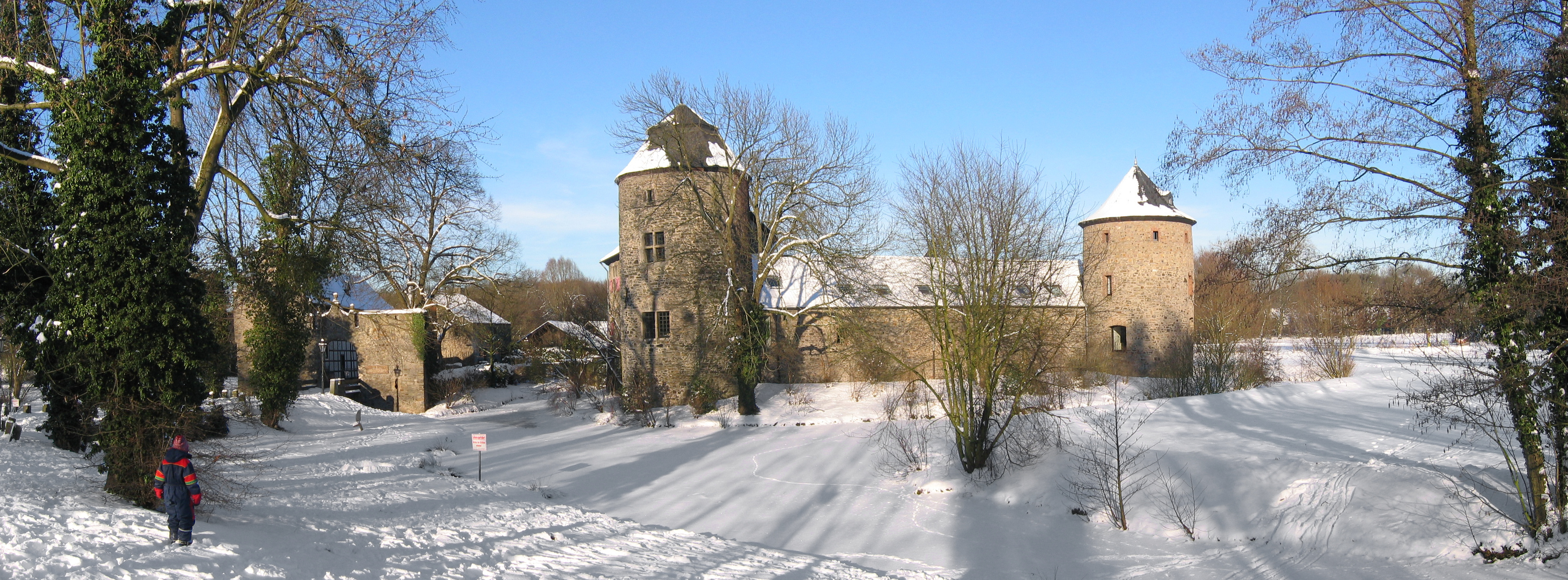 Water castle Haus zum Haus in Ratingen